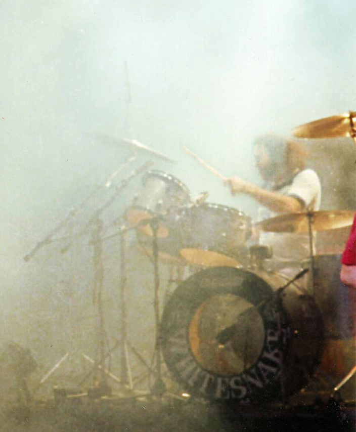 Whitesnake Hammersmith Odeon 1981